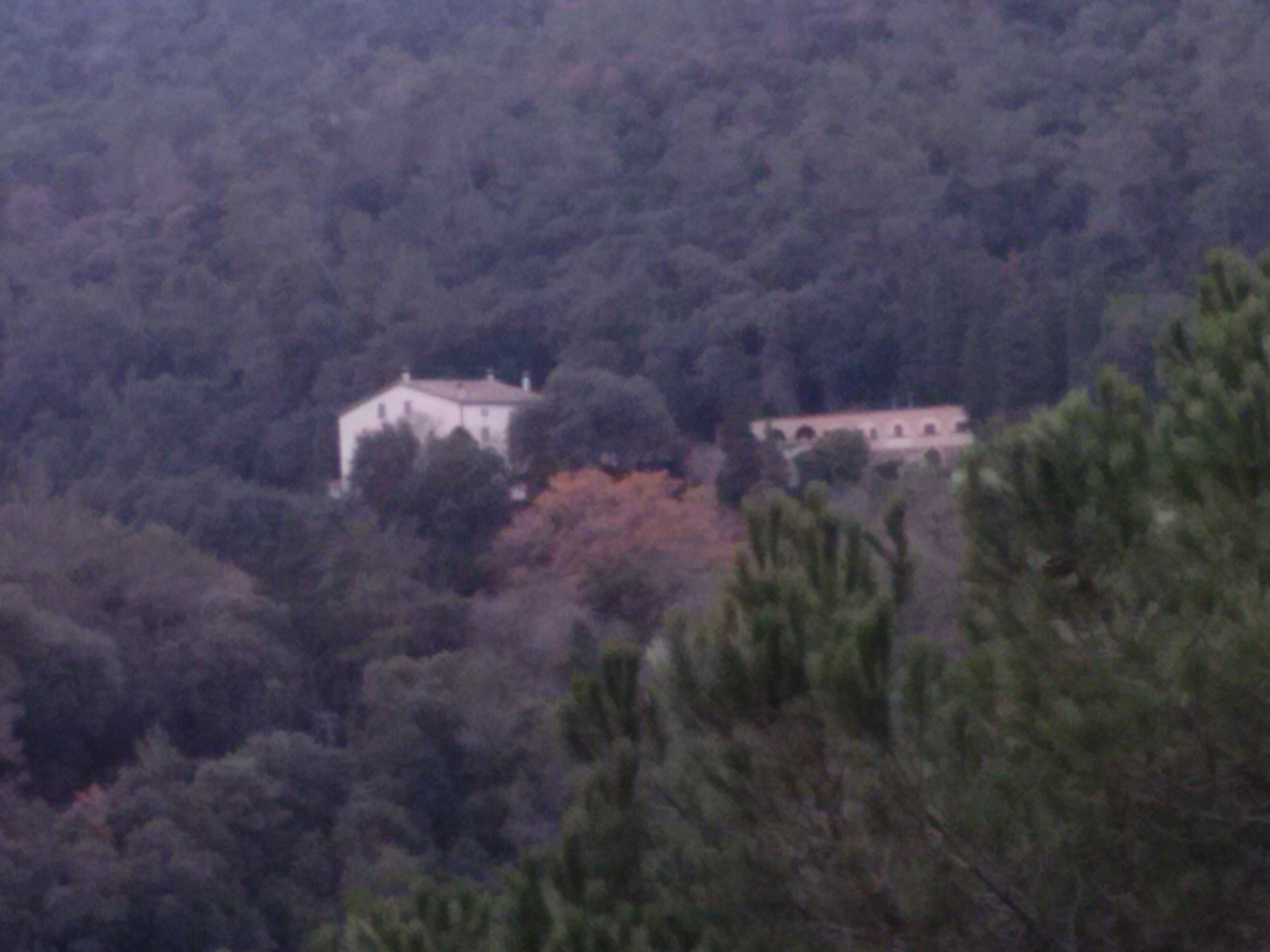 El Torn (XIV century), Tagamanent (Catalonia)